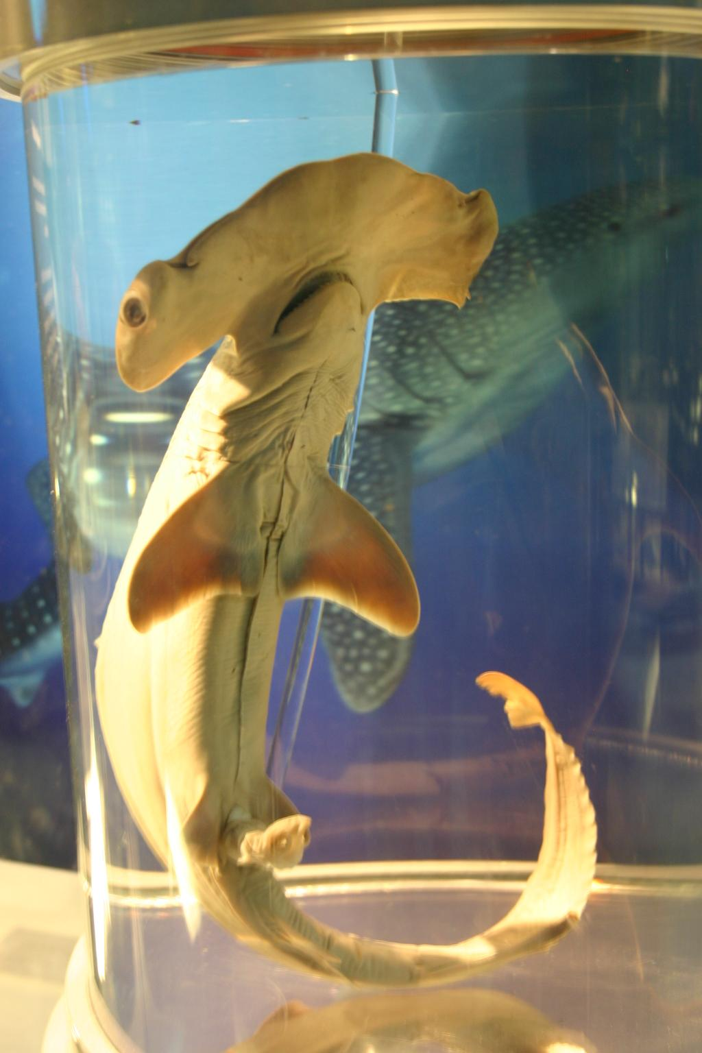 Preserved scalloped hammerhead (Sphyrna lewini) at the Smithsonian Institute